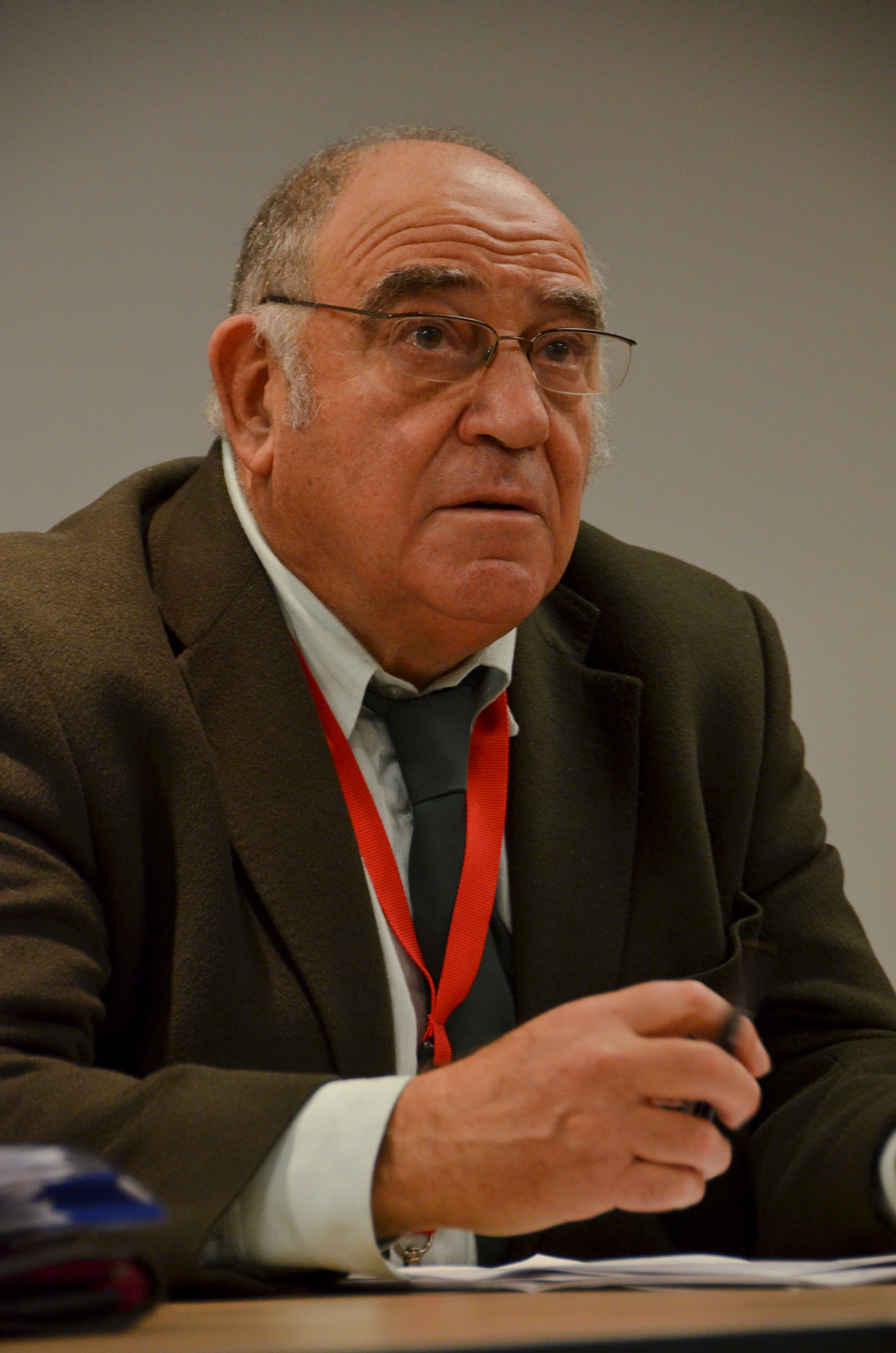 Ronald Kasrils. Photo : Renaud Hoyois